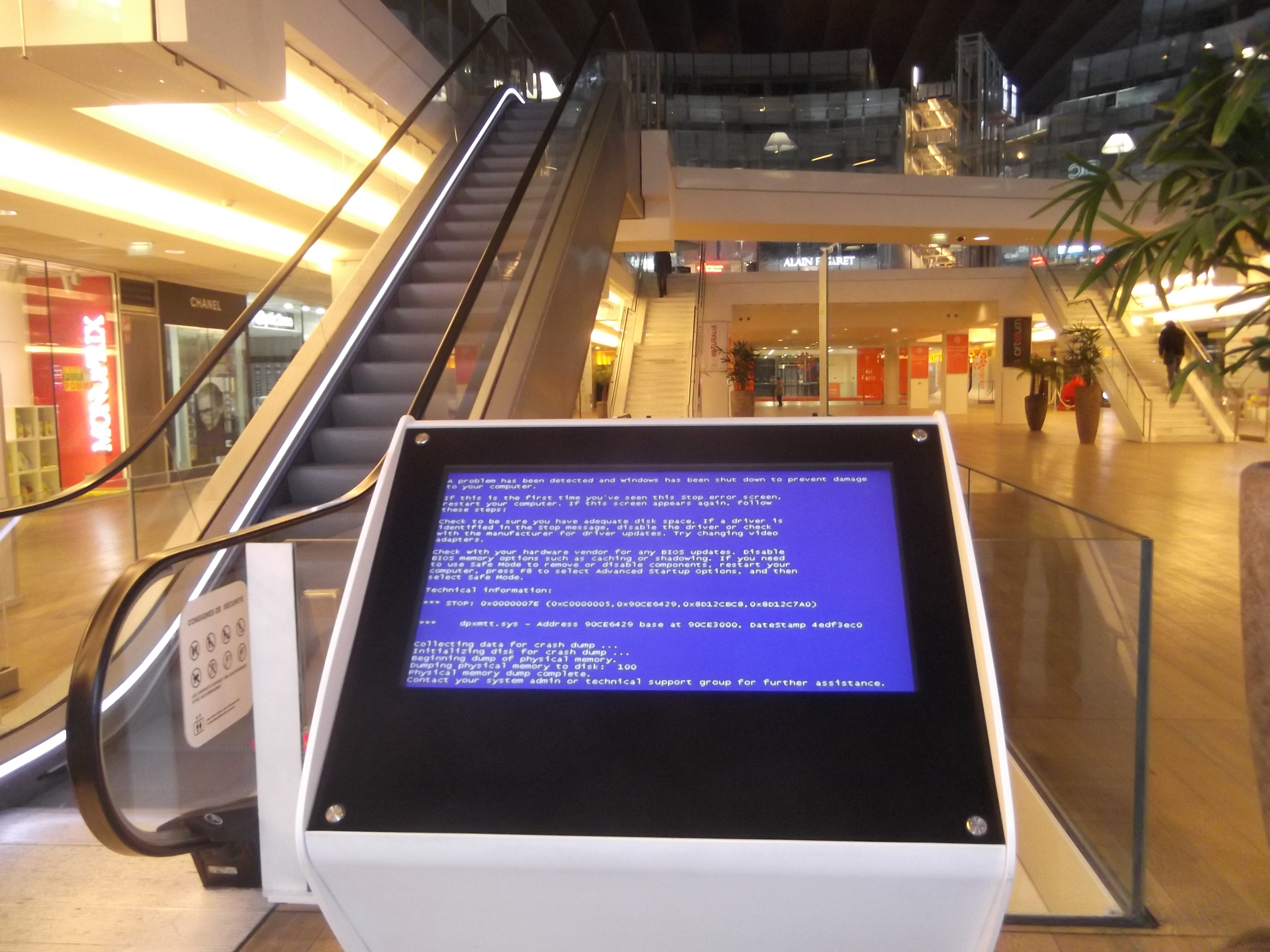 BSOD, on an Advertising Screen, in the CNIT (Center of New Industries and Technologies) Paris - The Defense District